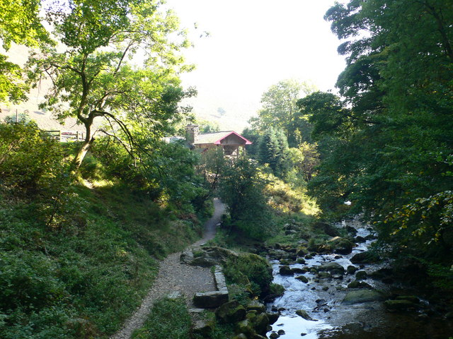 Tan y Pistyll Restaurant Cafe at the foot of Pistyll Rhaeadr.